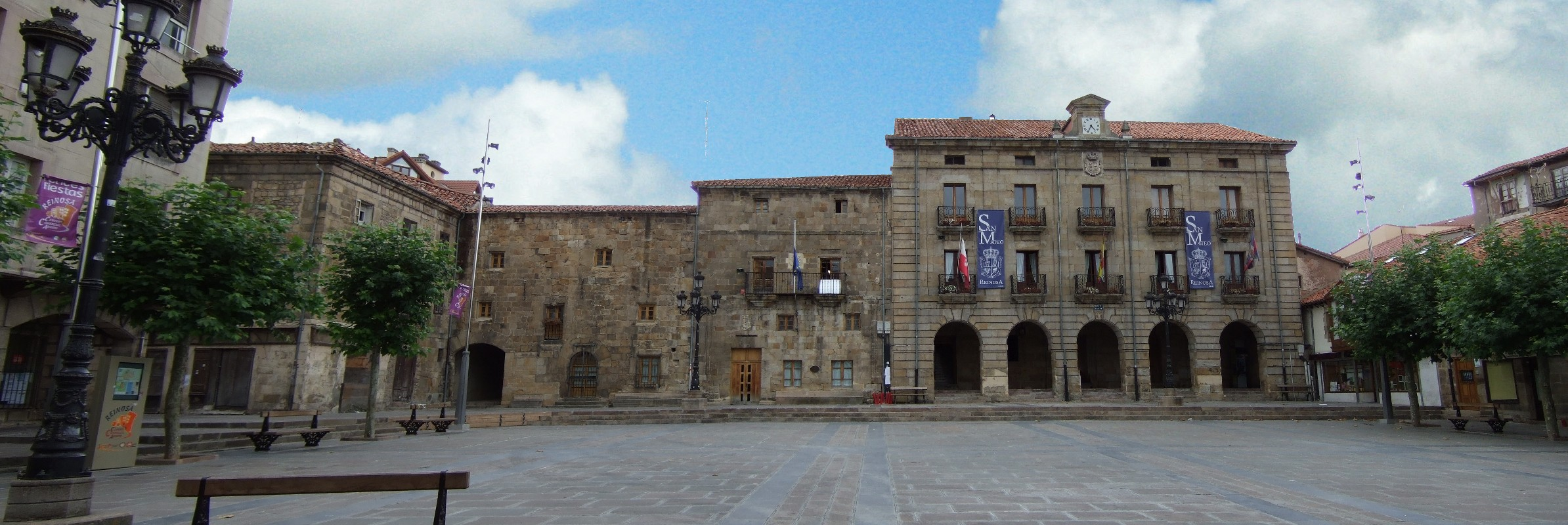 Plaza de España with the Ayuntamiento of the town.